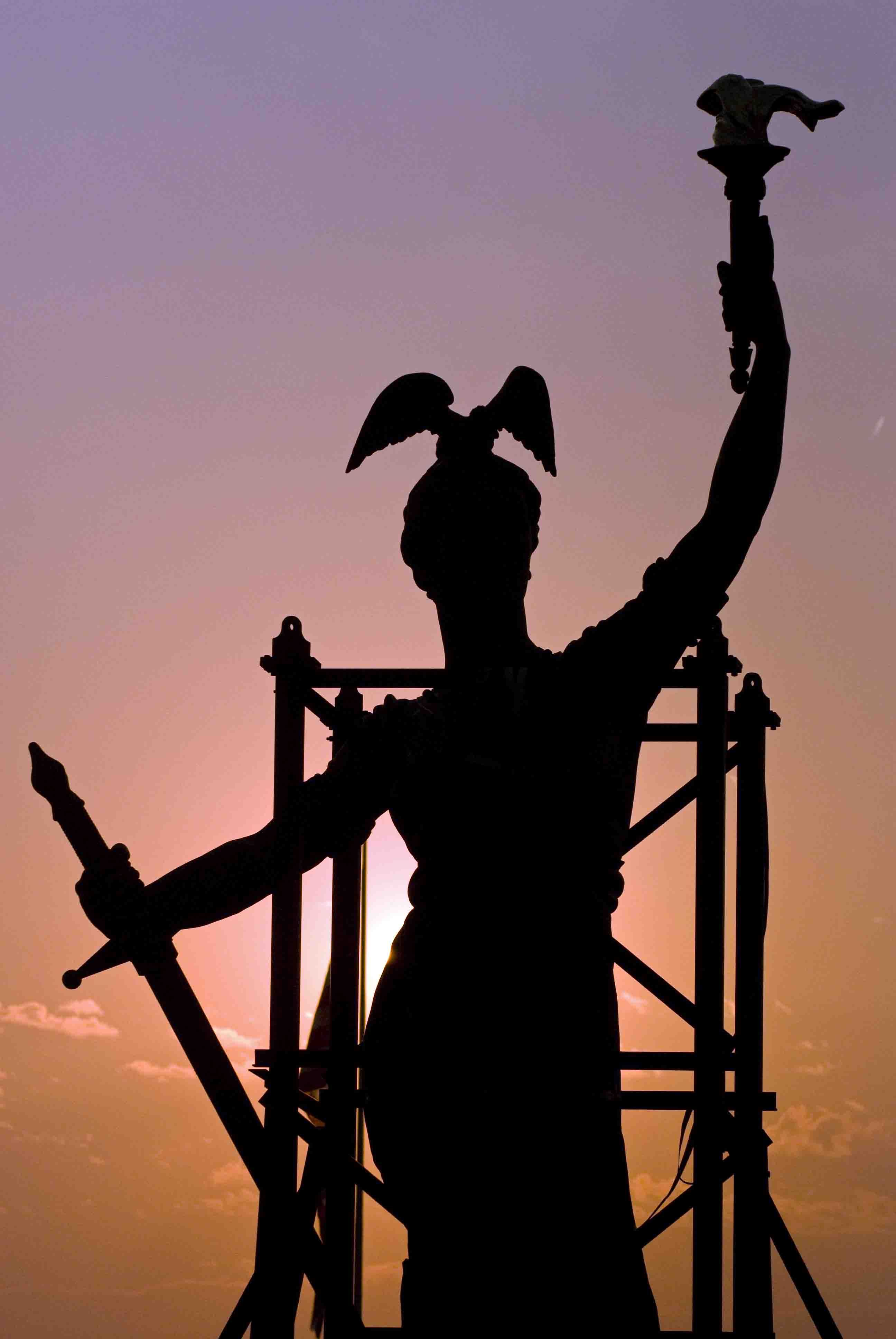 Lady Victory, the 118-year-old, 38-foot-tall bronze sculpture that resides atop the Soldiers and Sailors Monument, 284 feet and six inches above the center of Indianapolis and the state of Indiana, has been restored and returned to her home on the circle, downtown, Sept. 2. The statue was removed from the monument when workers discovered corrosion while repairing the monument's observation deck in 2009. The $1.5 million in restorations began in Stout Field, Indiana National Guard Joint Forces Headquarters in April and were finished two months ahead of schedule. Victory will be on display at ground level until Sept. 6 when she will be placed back on top of the historic monument. Just 15-feet shorter than the Statue of Liberty, the monument was originally intended to memorialize Indiana's Civil War veterans, and, ongoing as it was built, the Spanish-American War. It is the tallest Civil War monument in America dedicated to ordinary soldiers and sailors. Unit: Indiana National Guard Headquarters DVIDS Tags: Indianapolis; Civil War; monument; Indiana; Army; war; National Guard; Stout Field; Lady Victory